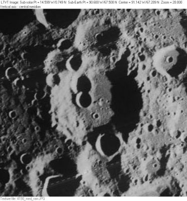 LO-IV-190M Cremona is in the center with 47-km Cremona A above it, and 23-km Cremona L on the south rim.